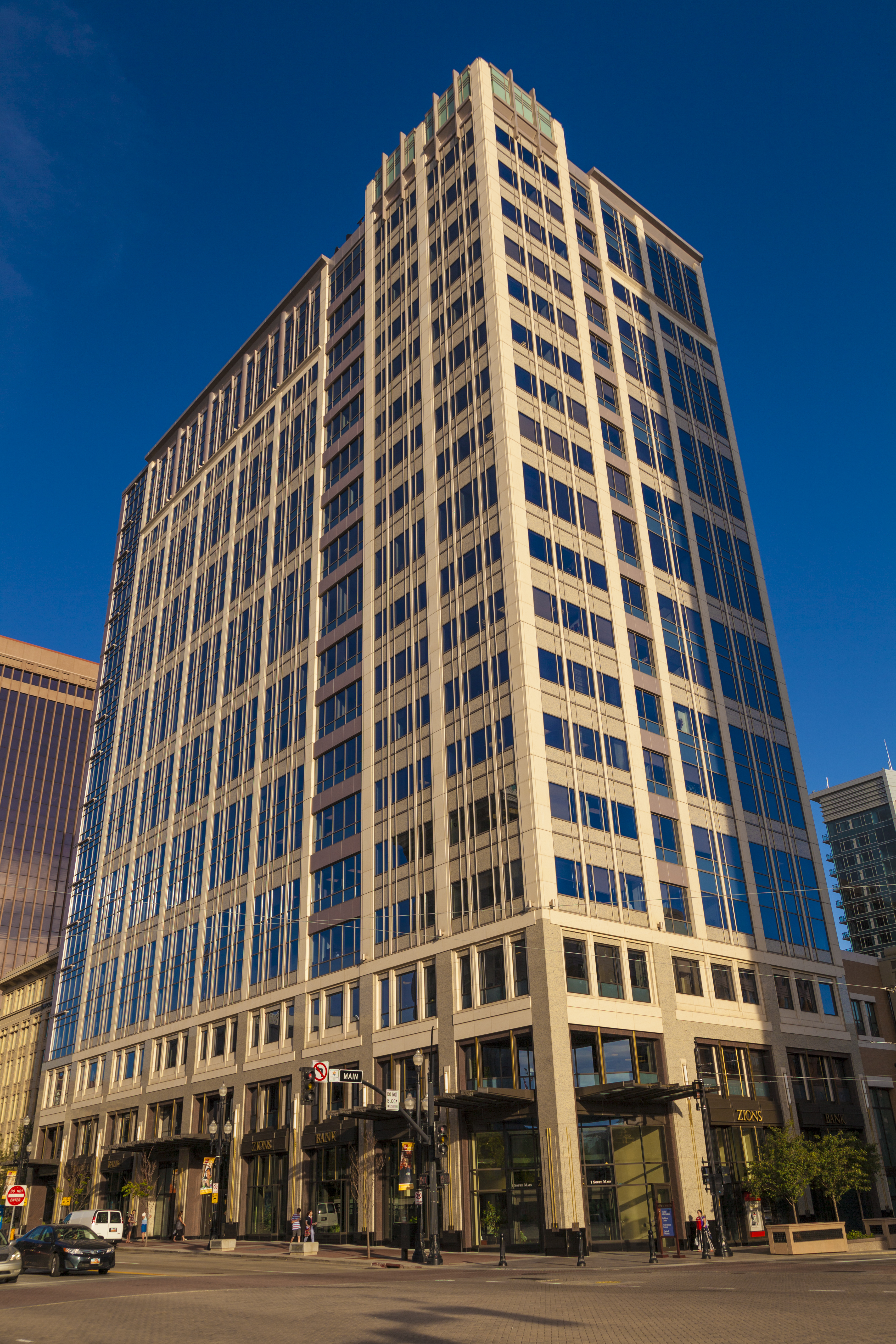 Gateway Tower East, also known as the Zions Bank Building, in Salt Lake City, Utah, USA.